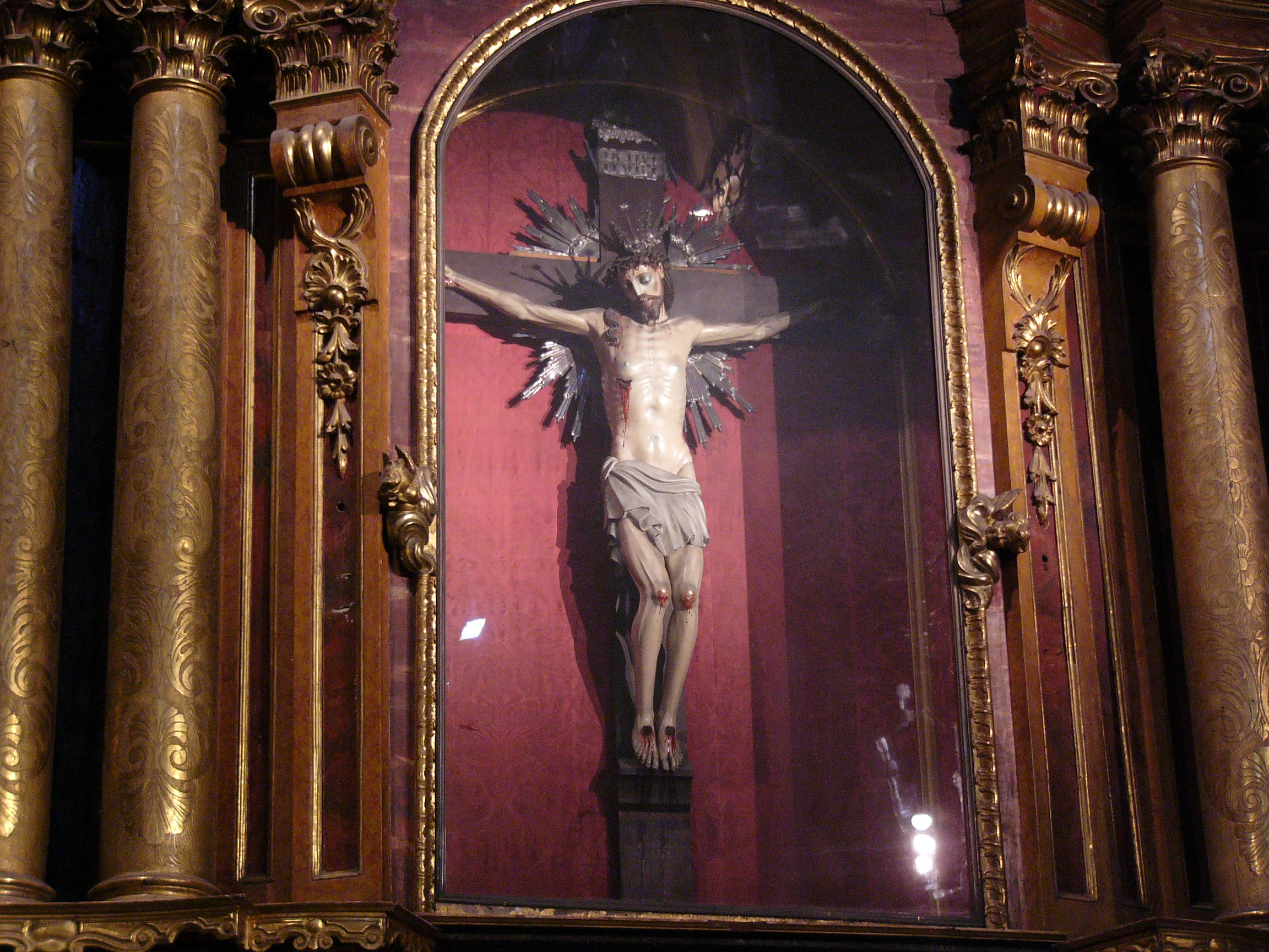 Christ of Buenos Aires Cathedral (carved by Manuel do Coyto in 1671)